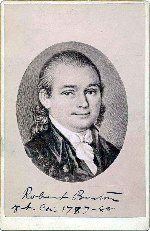 Robert Burton, a statesman from North Carolina